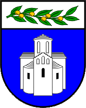 Official coat of arms of the Zadar county in Croatia, made from gif version at by Željko Heimer